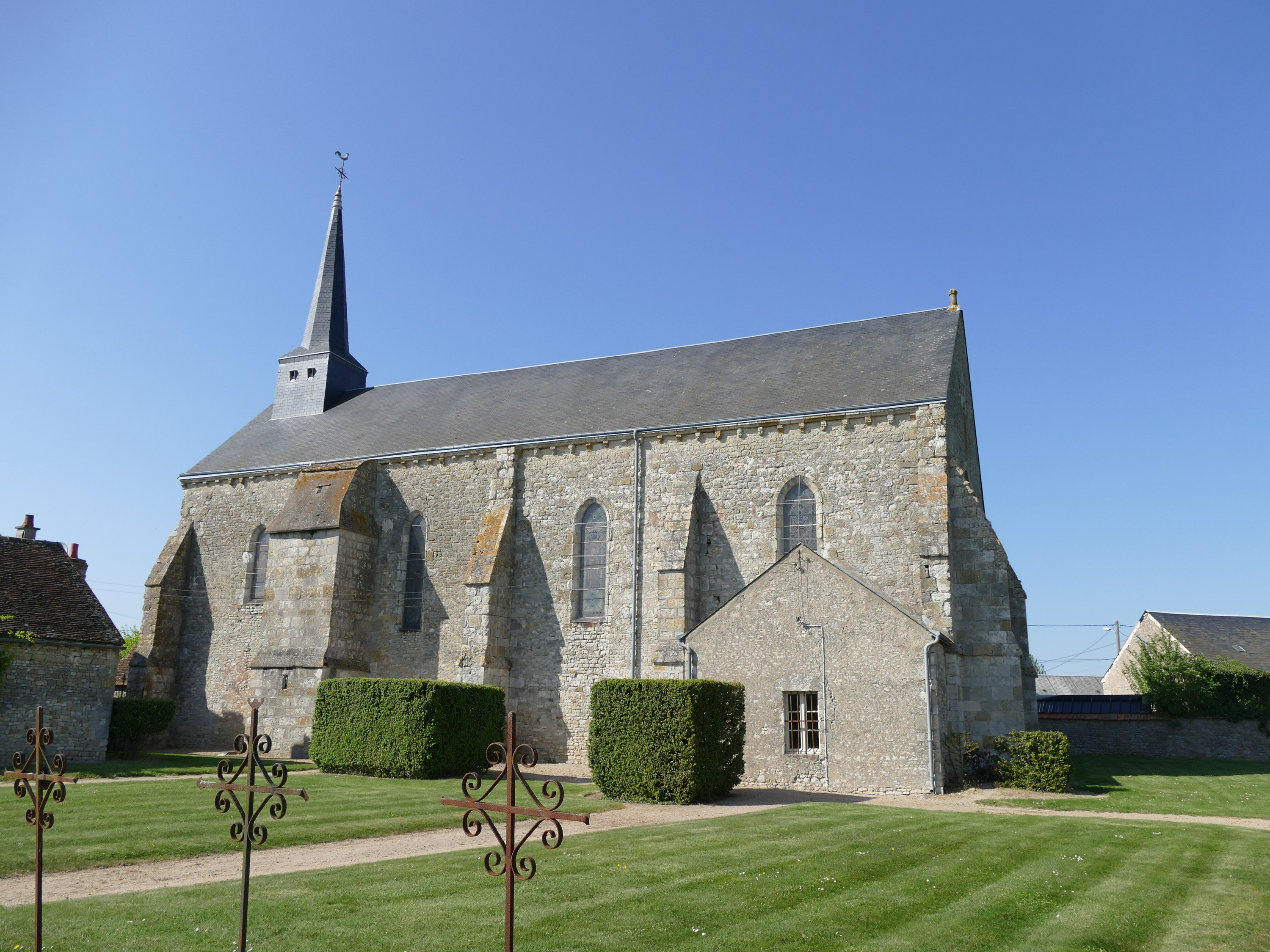 Saint-Hilaire's church in Guigneville (Loiret, Centre-Val de Loire, France).